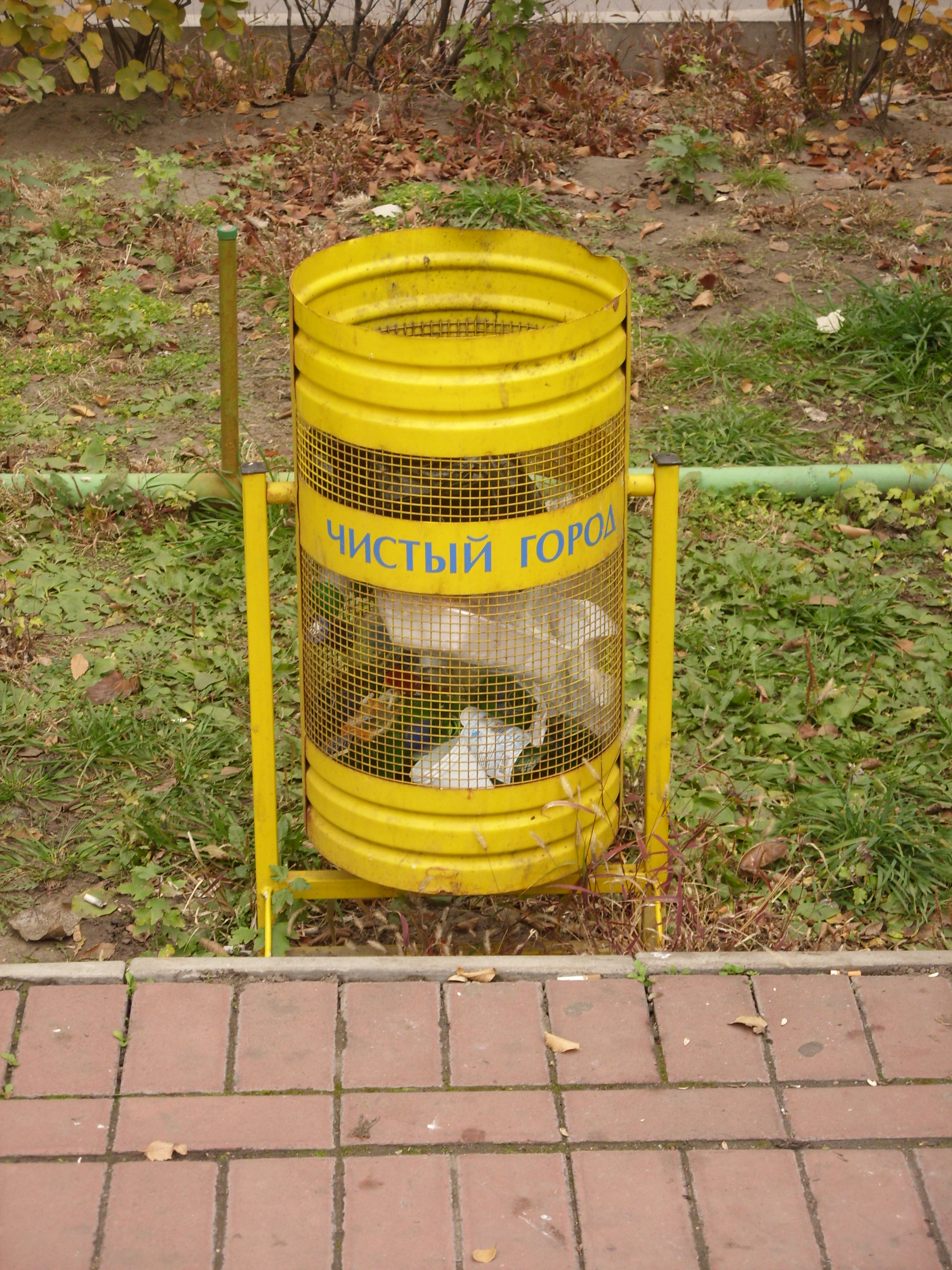 The 'Clean City' garbage can in Volzhskiy. This one is at the entrance of the city next to the Loginov monument.